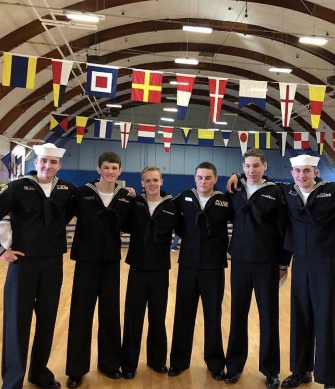 Sea Cadets after graduating from EMS at Naval Station Norfolk